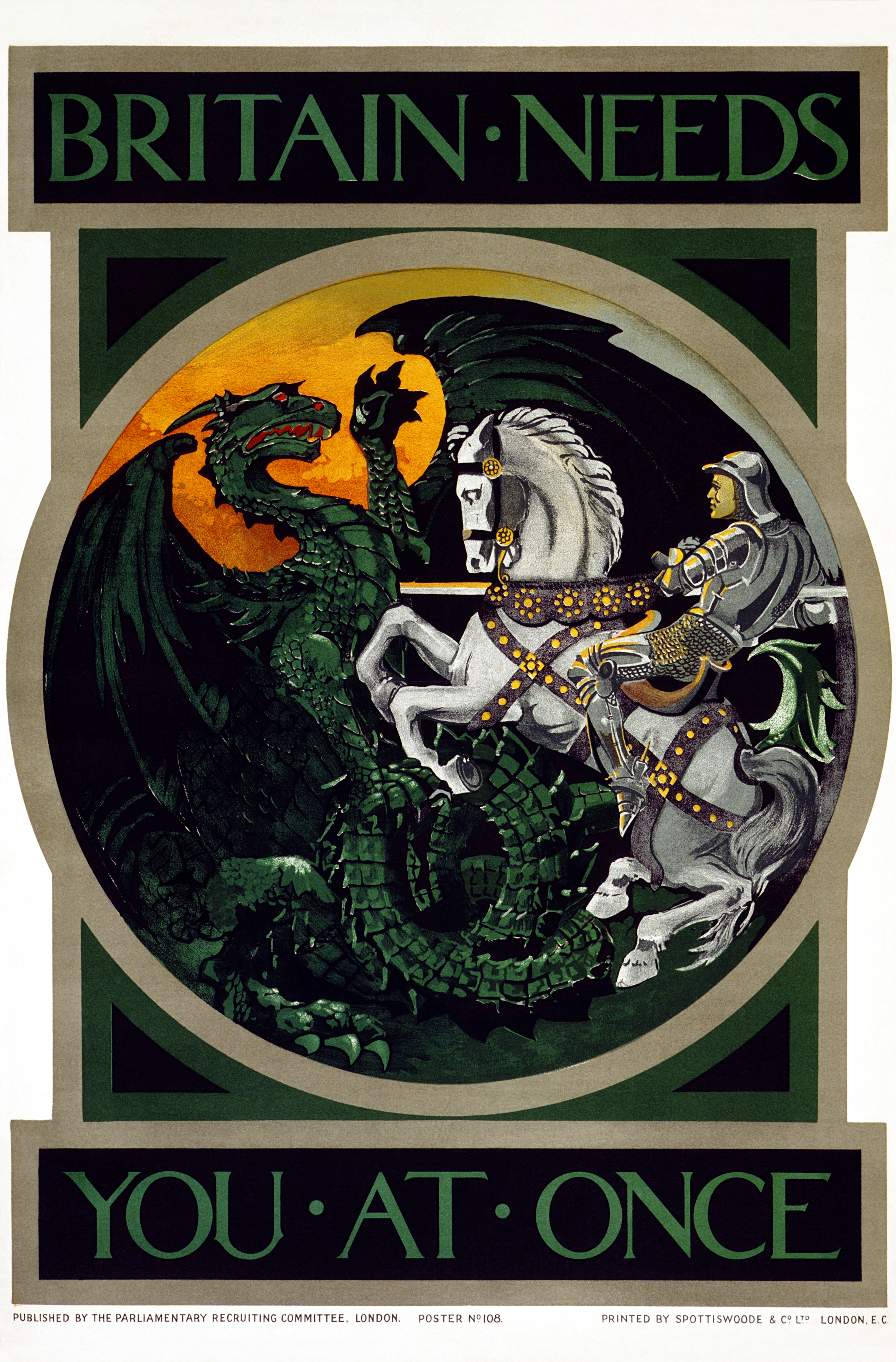 A WWI British recruitment poster. The Imperial War Museum identifies this as Parliamentary Recruiting Committee Poster No. 108. It also points out that St. George and the Dragon served as a national symbol for several parties in the conflict (which includes Germany, ironically enough). Library of Congress Description: Title: Britain needs you at once[sic: the LoC uses weird capitalization rules] / printed by Spottiswoode & Co. Ltd. London E.C. Date Created/Published: London : Parliamentary Recruiting Committee, [1915] Medium: 1 print (poster) : lithograph, color ; 76 x 50 cm. Summary: Poster showing St. George slaying the dragon; scene in roundel format. Reproduction Number: LC-USZC4-11248 (color film copy transparency) Rights Advisory: No known restrictions on publication. For information see "World War I Posters" ( Call Number: POS - Gt Brit .P37, no. 4 (C size) [P&P] Repository: Library of Congress Prints and Photographs Division Washington, D.C. 20540 USA